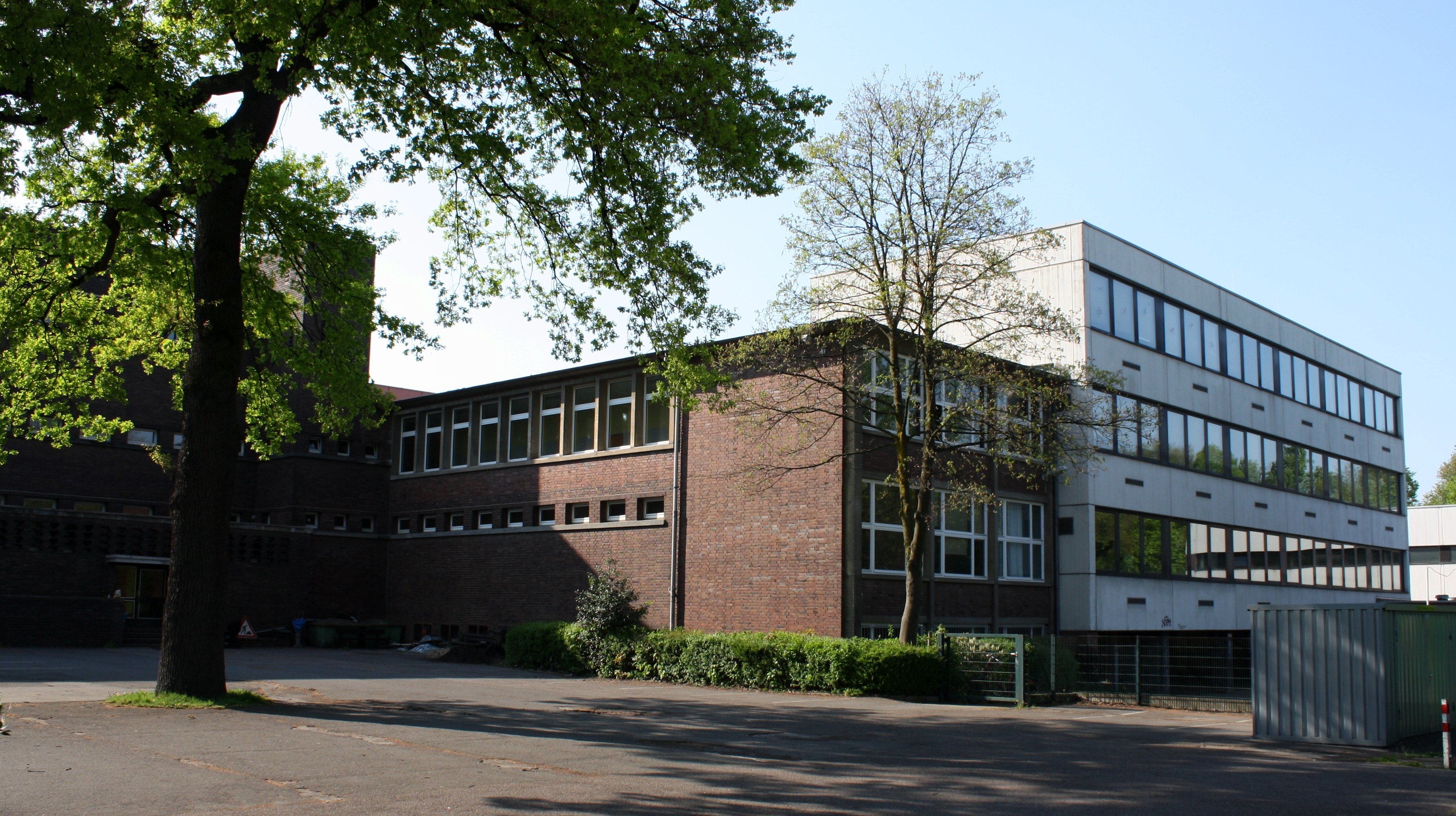 Middle school „Am Stadtpark“, Leverkusen-Wiesdorf, Germany